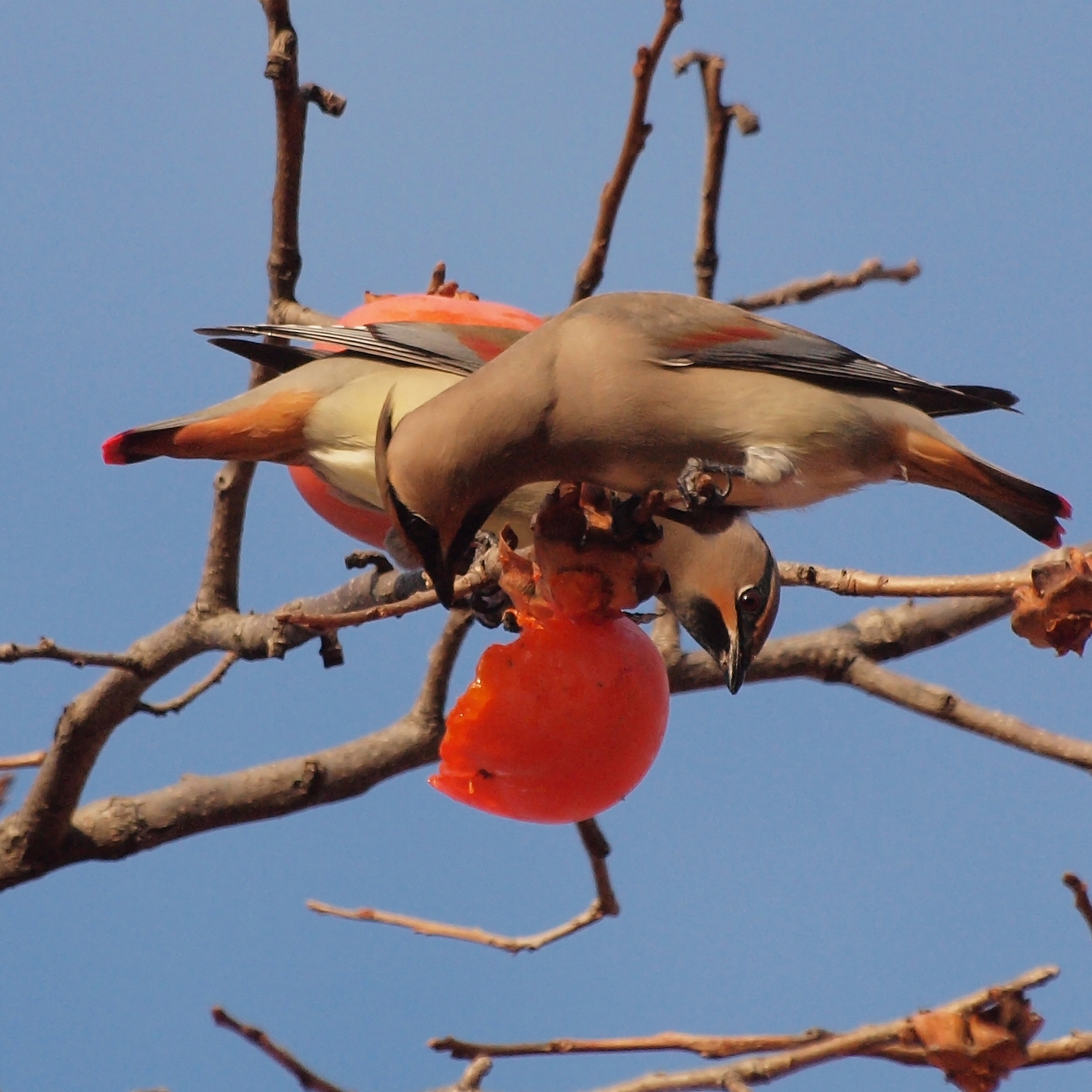 Japanese Waxwing Bombycilla japonica feeding on Persimmon fruit, Nara, Japan.